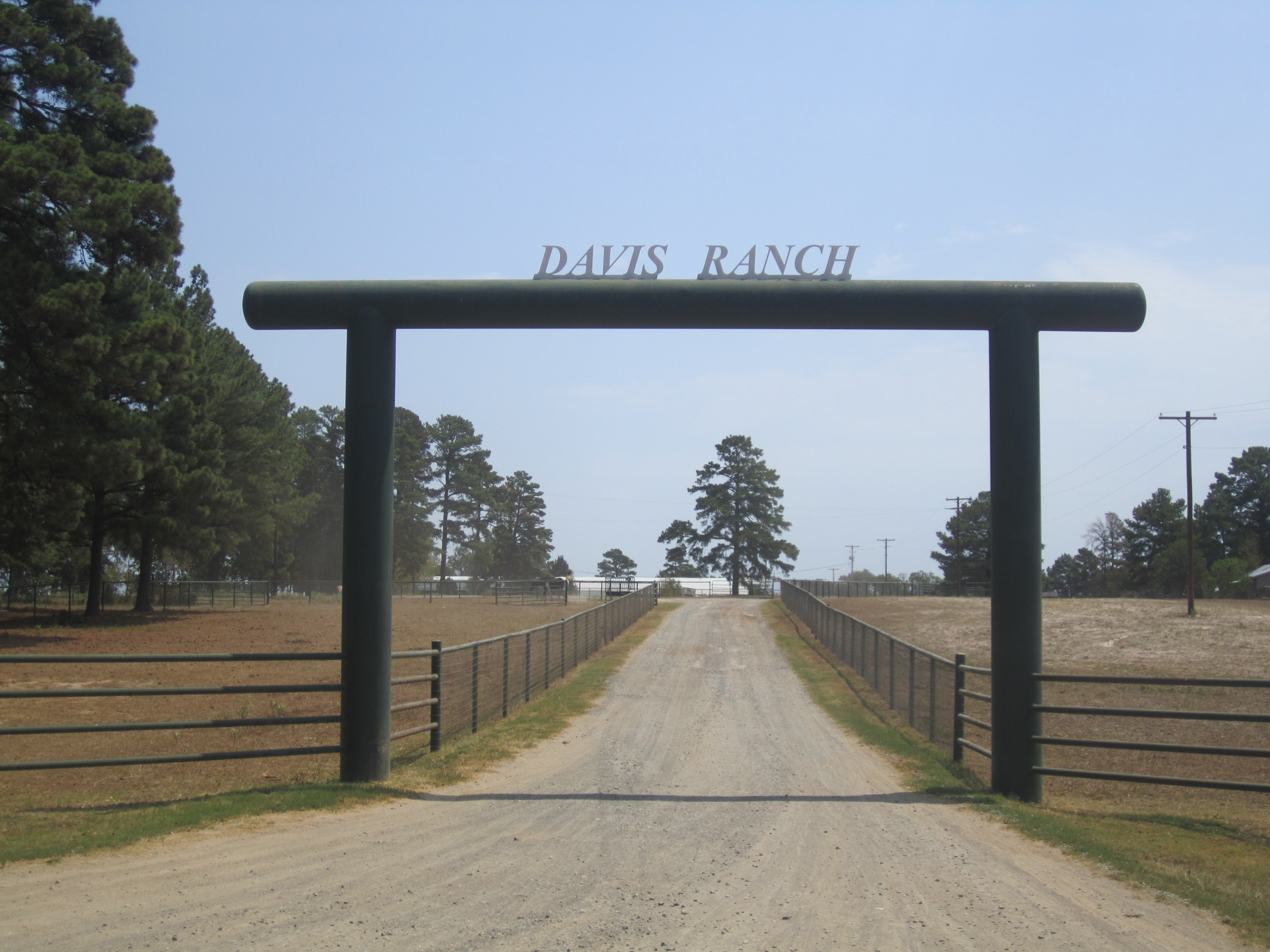 I took photo with Canon camera of Davis Ranch entrance in Big Sandy, TX.